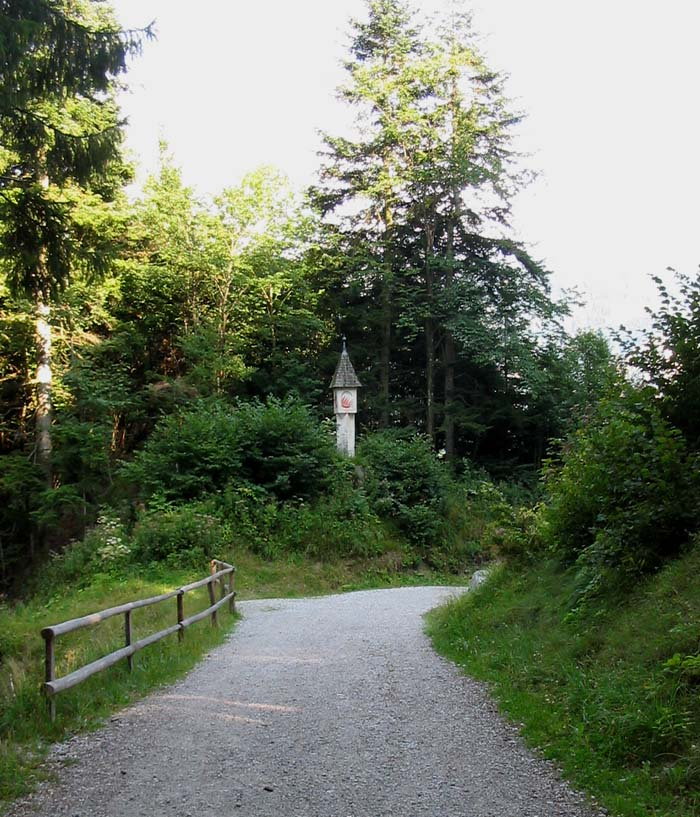 On detailed description, see closeup (other version).